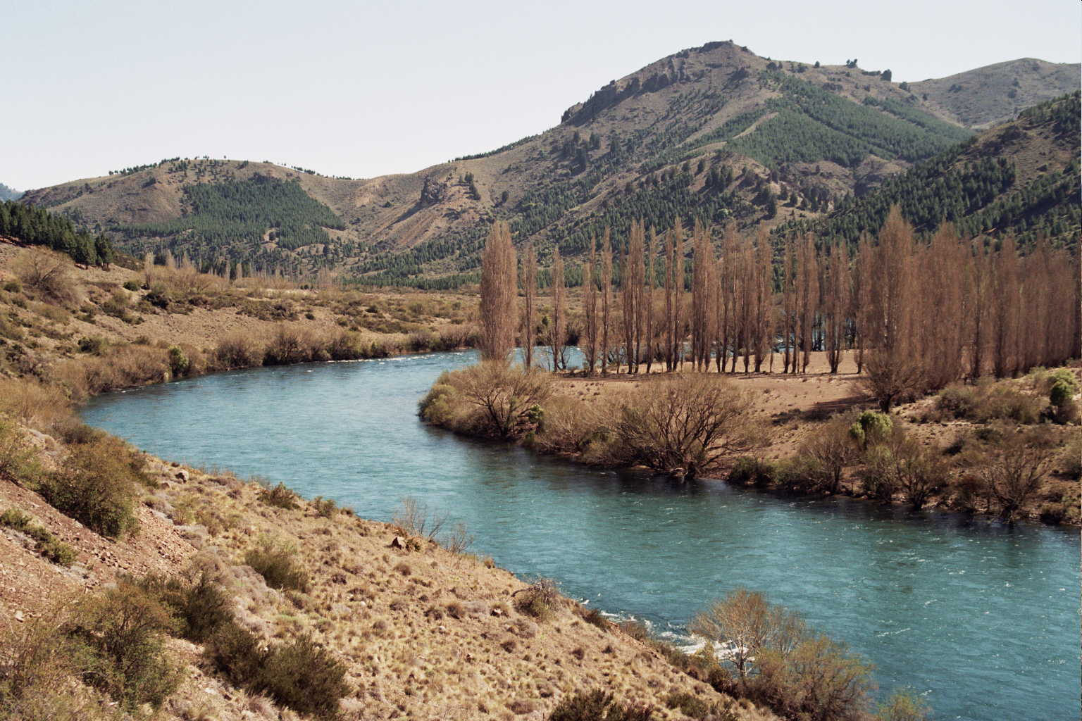 Limay River